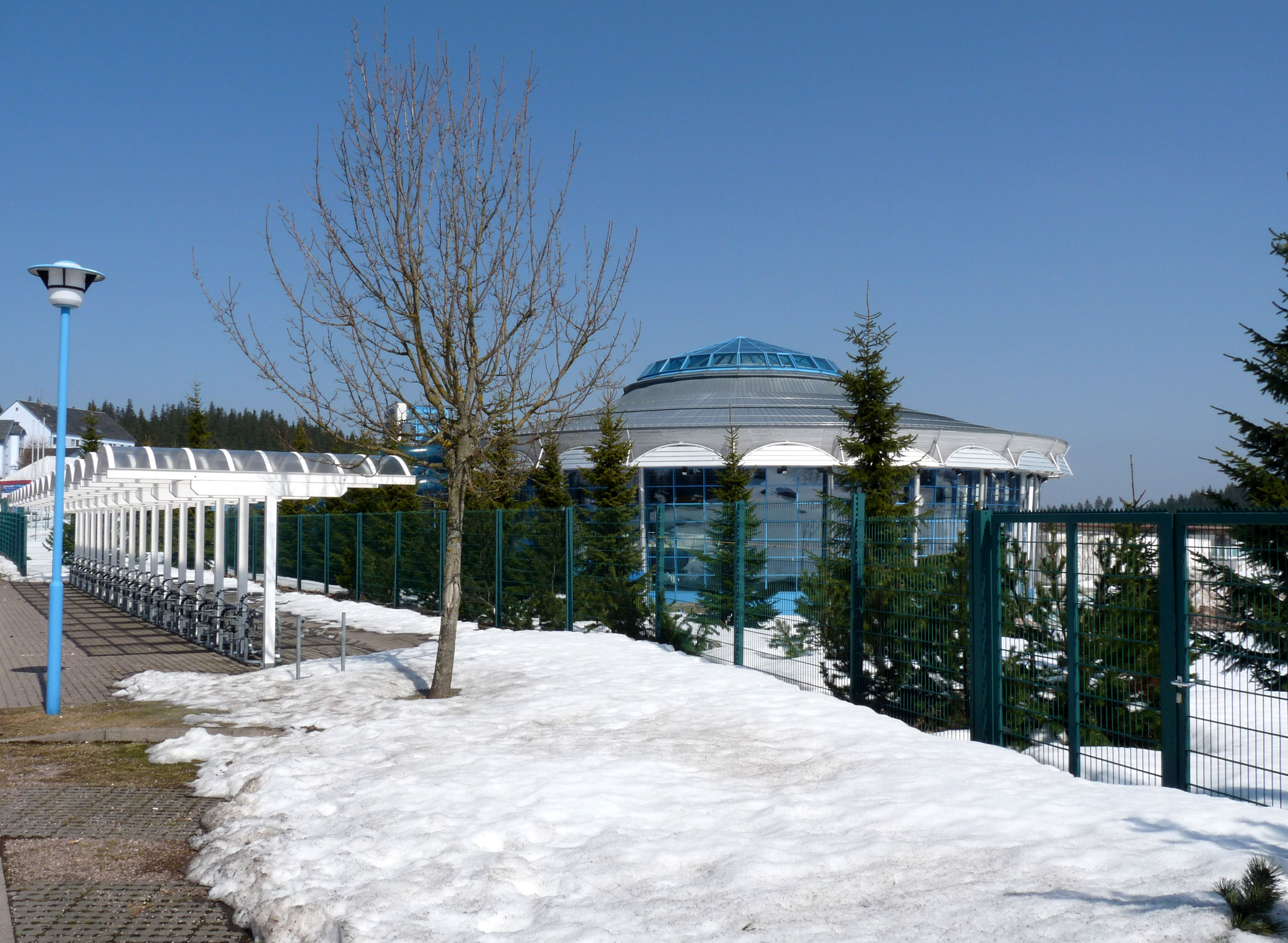 Renn-Thermen in Oberhof (Germany)